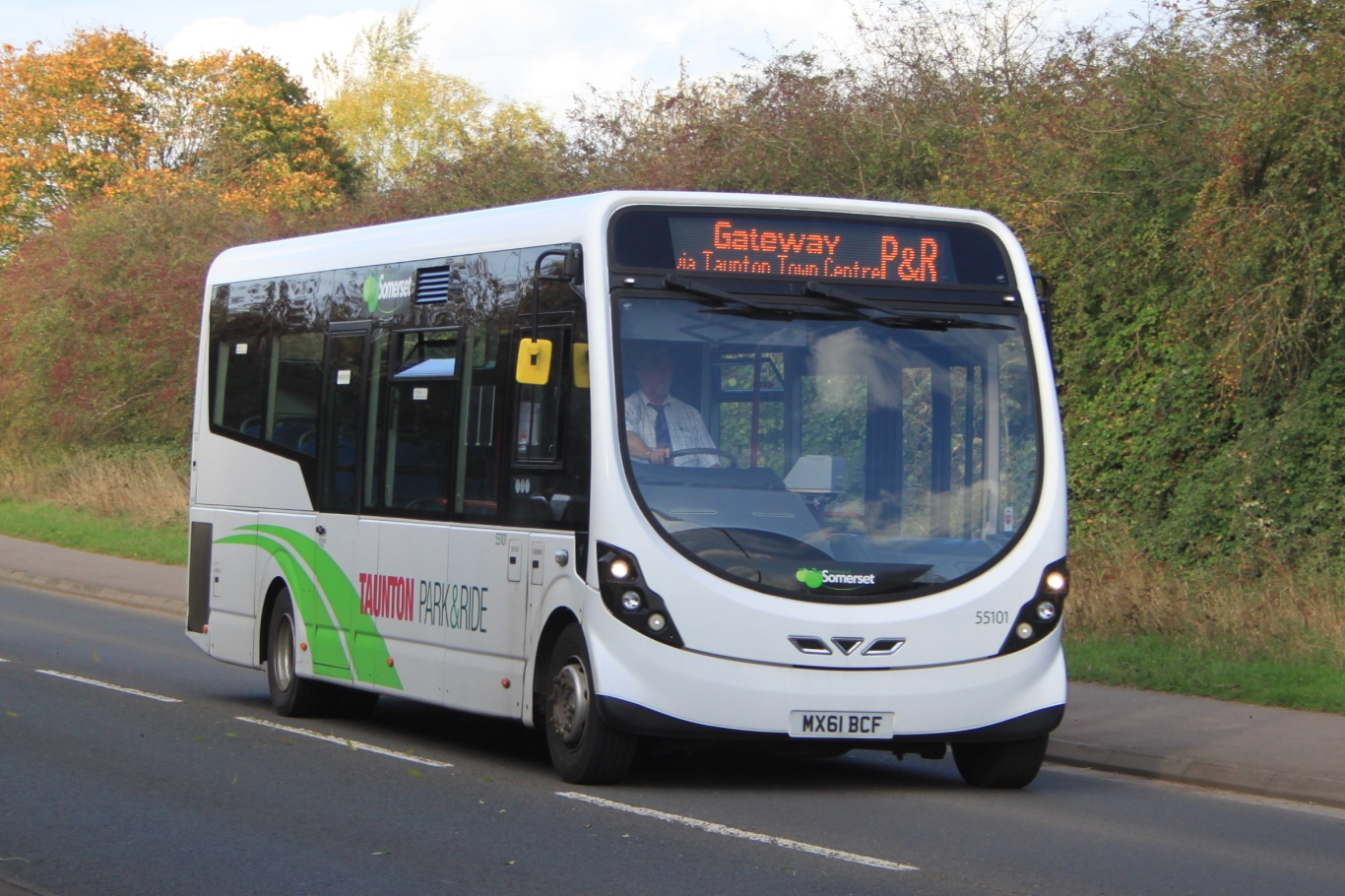 Most vehicles used by The Buses of Somerset on the Taunton Park and Ride service are Wright Streetlite DFs but this is a slightly smaller Streetlite WF. Number 55101 (registration MX61BCF) ois seen in Silk Mills Road having just left the park and ride terminal there for a cross-town journey to the Gateway terminal next to the M5 motorway junction.